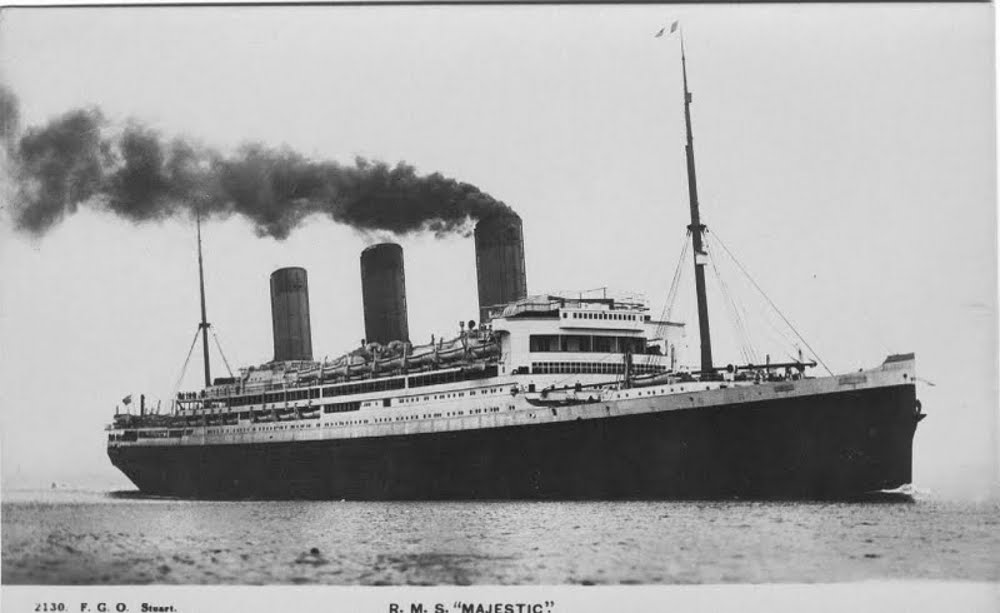 RMS Majestic from an old postcard